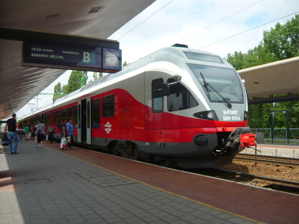 Upper Érd (Érd-felső) railway station in Érd, Hungary. The train is on time! :)